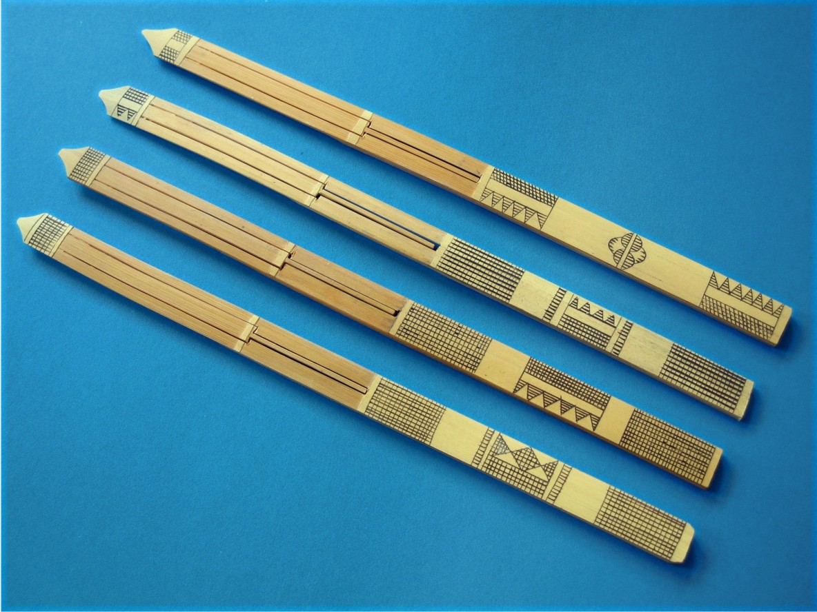 jew's-harps, bamboo, length appr. 20 cm